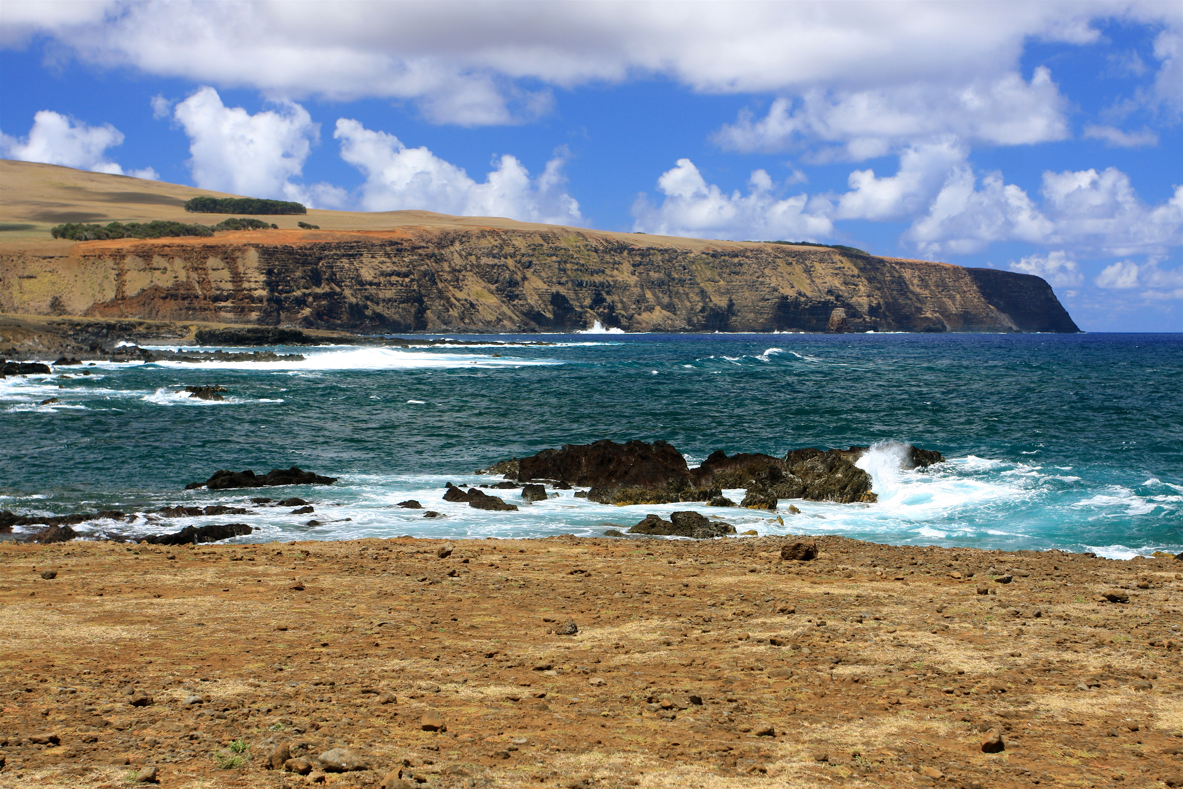 Southeast Coast - Easter Island